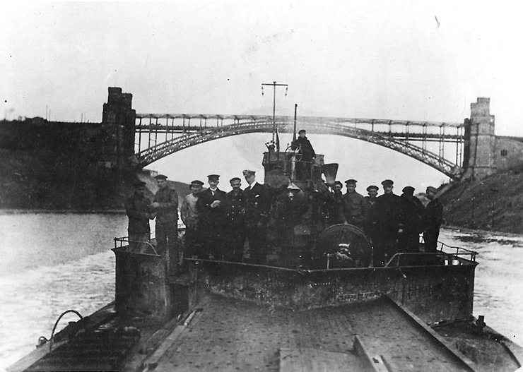 U-152 (German Submarine, 1917) Officers, crewmen and a former prisoner of war on the submarine's foredeck, while she was passing through the Kiel Canal on the way to Harwich, England to be surrendered, 28 November 1918. Two U.S. Navy officers, captured when the U-152 sank USS Ticonderoga (ID # 1958) on 30 September 1918, were on board the submarine. One is seen in this photograph, standing third from right, wearing his uniform and a civilian cap. He is Lieutenant Frank L. Muller, USNRF, Ticonderoga's Executive Officer. The other was Lieutenant (Junior Grade) Junius H. Fulcher, USNRF.